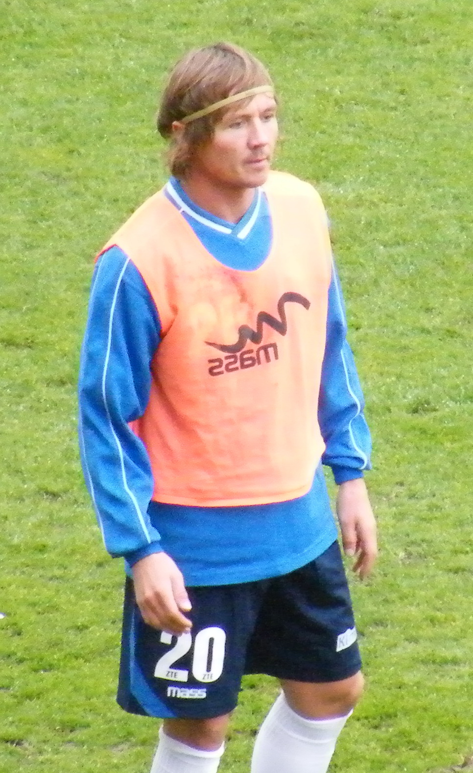 Marián Sluka Slovakian association football player.